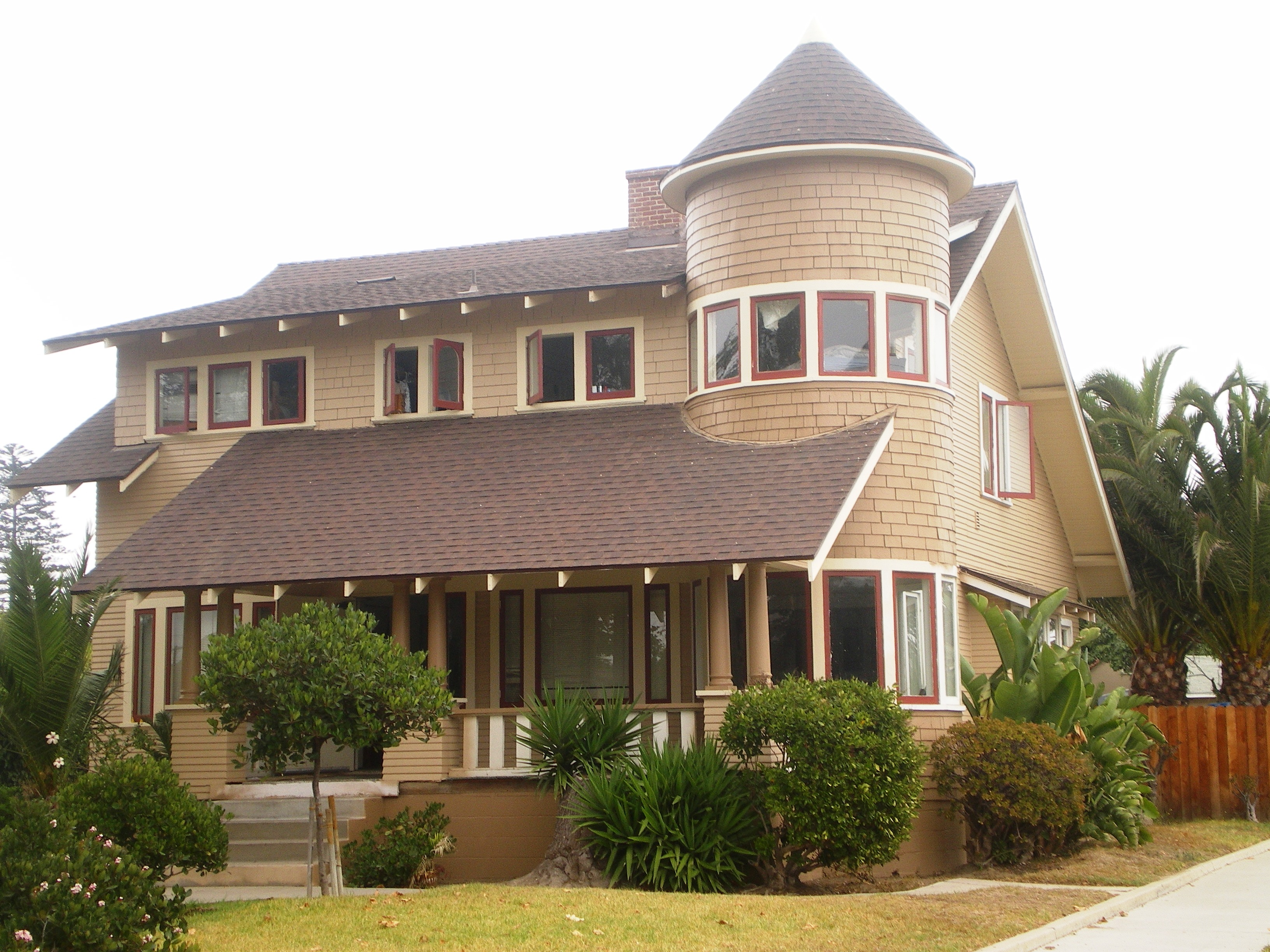 House at Corner of F Street and Fifth Street in the Henry T. Oxnard Historic District, Oxnard, California